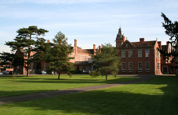 Carew Manor School, Beddington, Surrey This is a school for children who have special educational needs. It has a high reputation and there is strong competition for places. It is housed in the historic Carew Manor, (former name: Beddington Park House), part of which dates from 1490. The main building is from 1709, with remodelling in 1865.